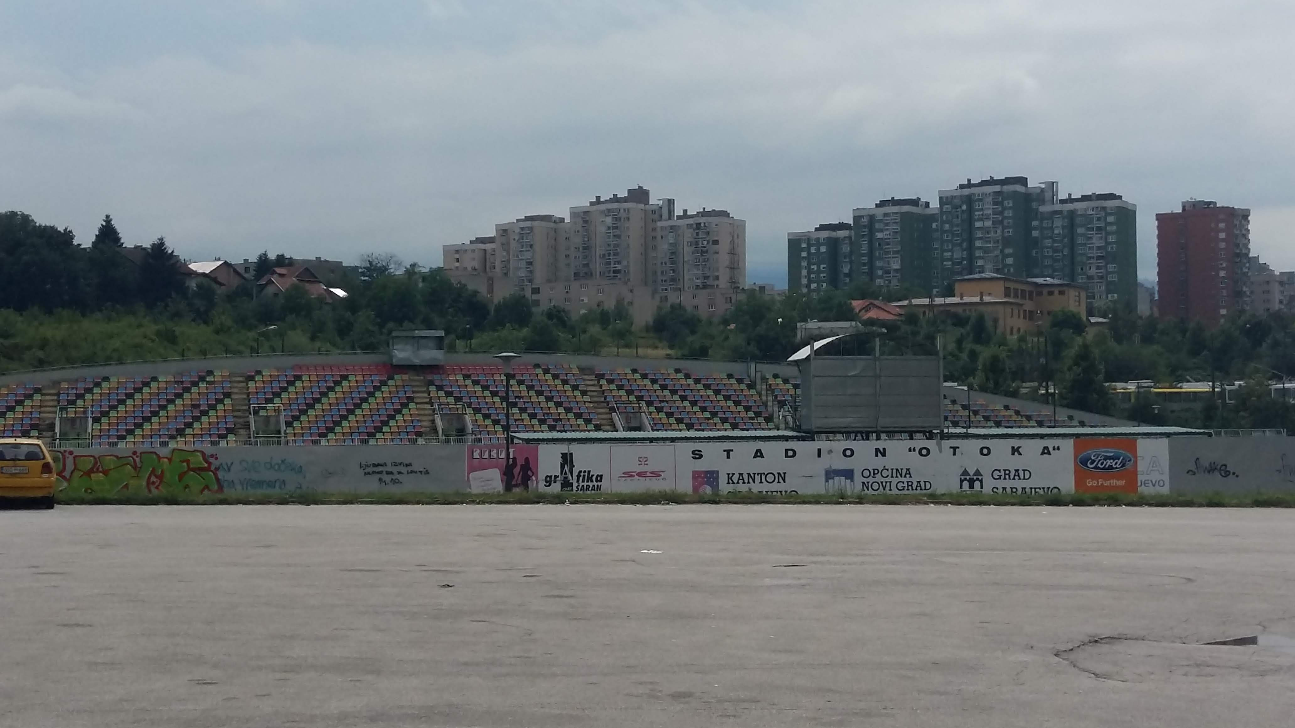 Otoka Stadium